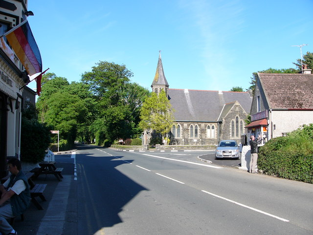 Sulby church